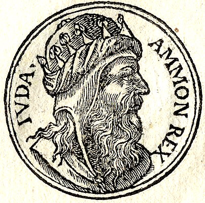 Amon-rex was the king of Judah who succeeded his father Manasseh of Judah on the throne.